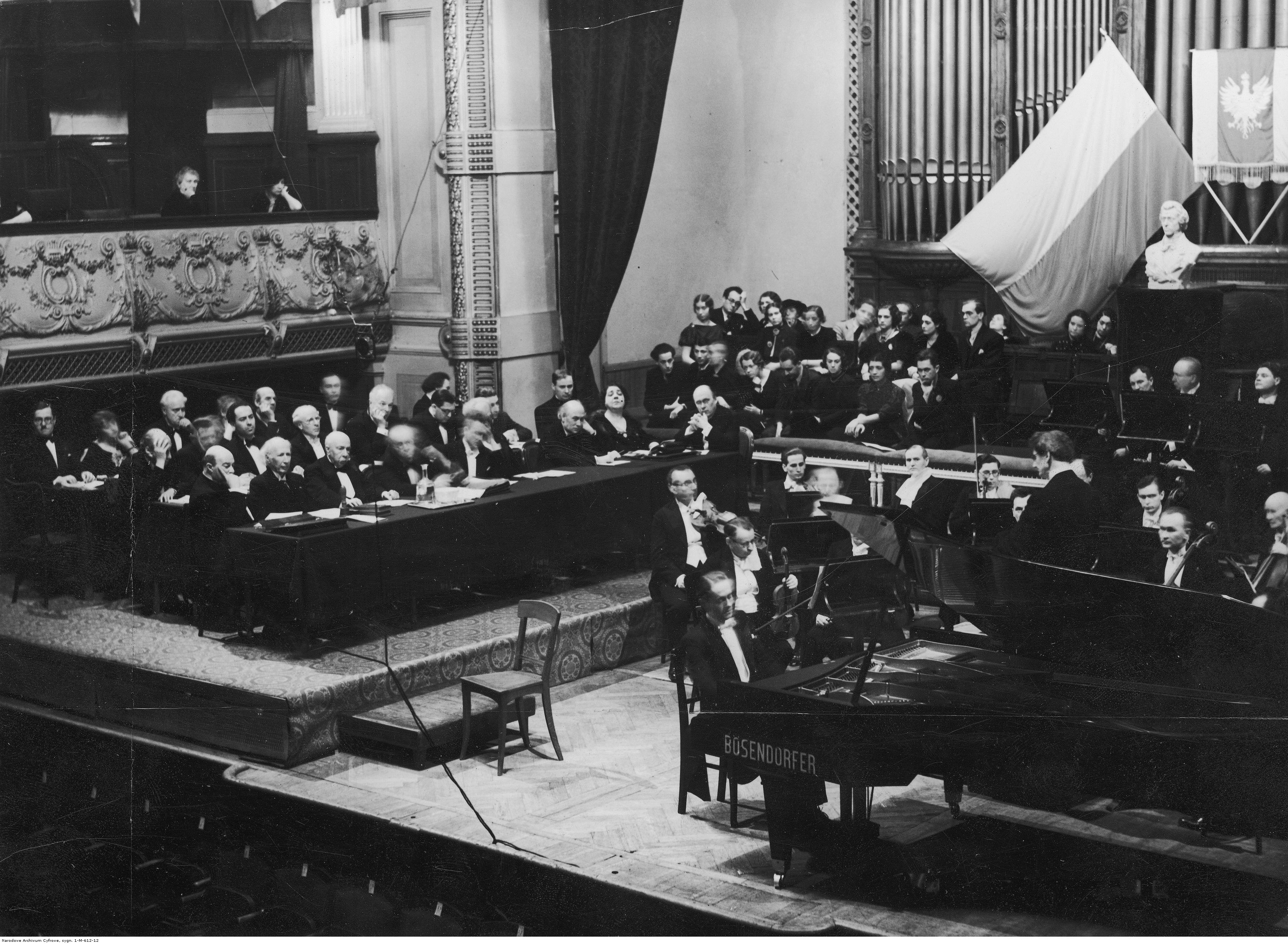 3rd Chopin Competition finale. On the left, jury members